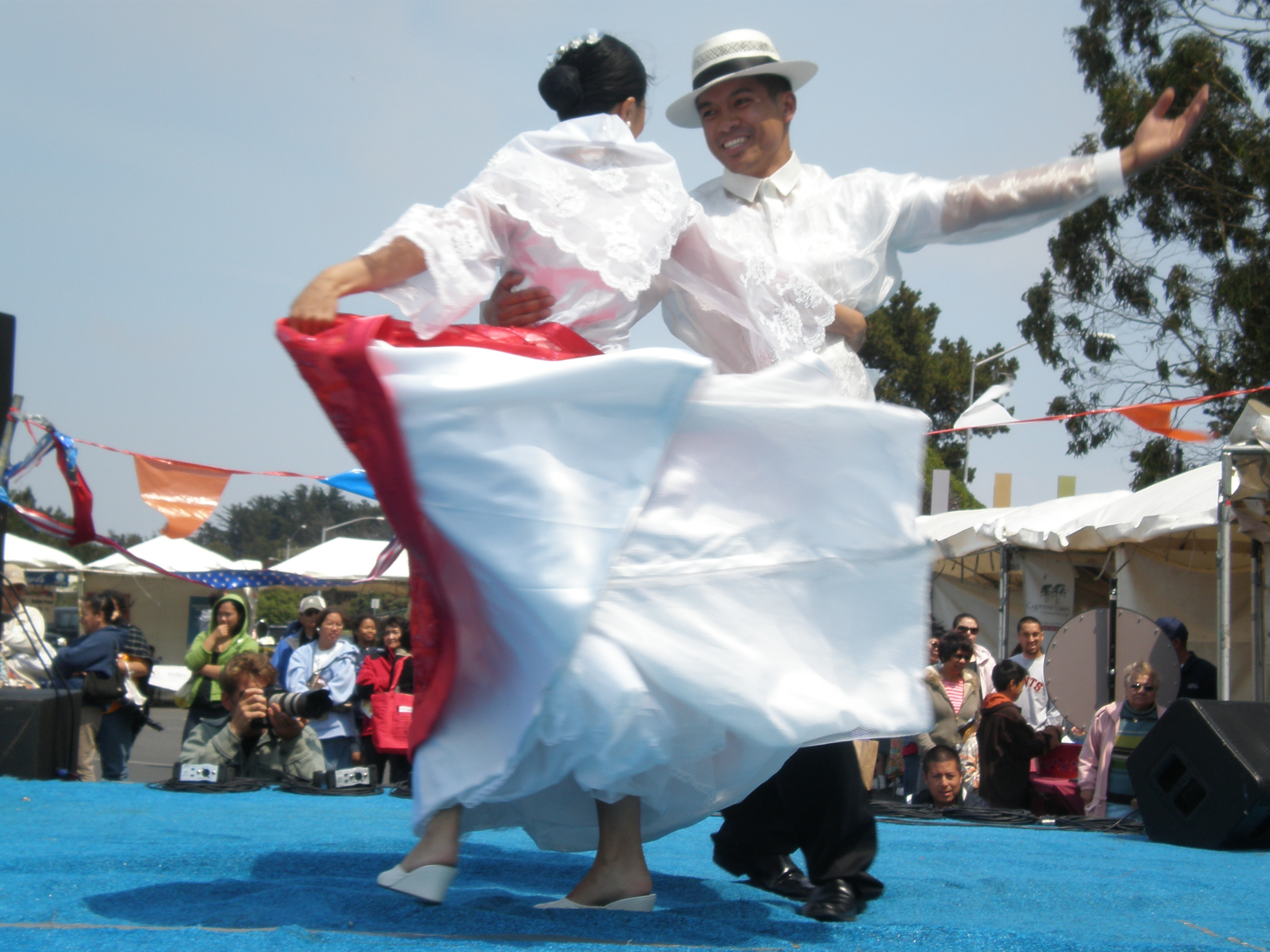 Members of the San Francisco based Parangal Dance Company performing the Jota Cagayana dance from the Cagayan Valley as part of their Maria Clara suite of dances at the 14th Annual Fil-Am Friendship Celebration at Serramonte Center in Daly City, California.